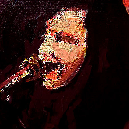 Photograph of a painting with the consent of the author. Painted in 1997.